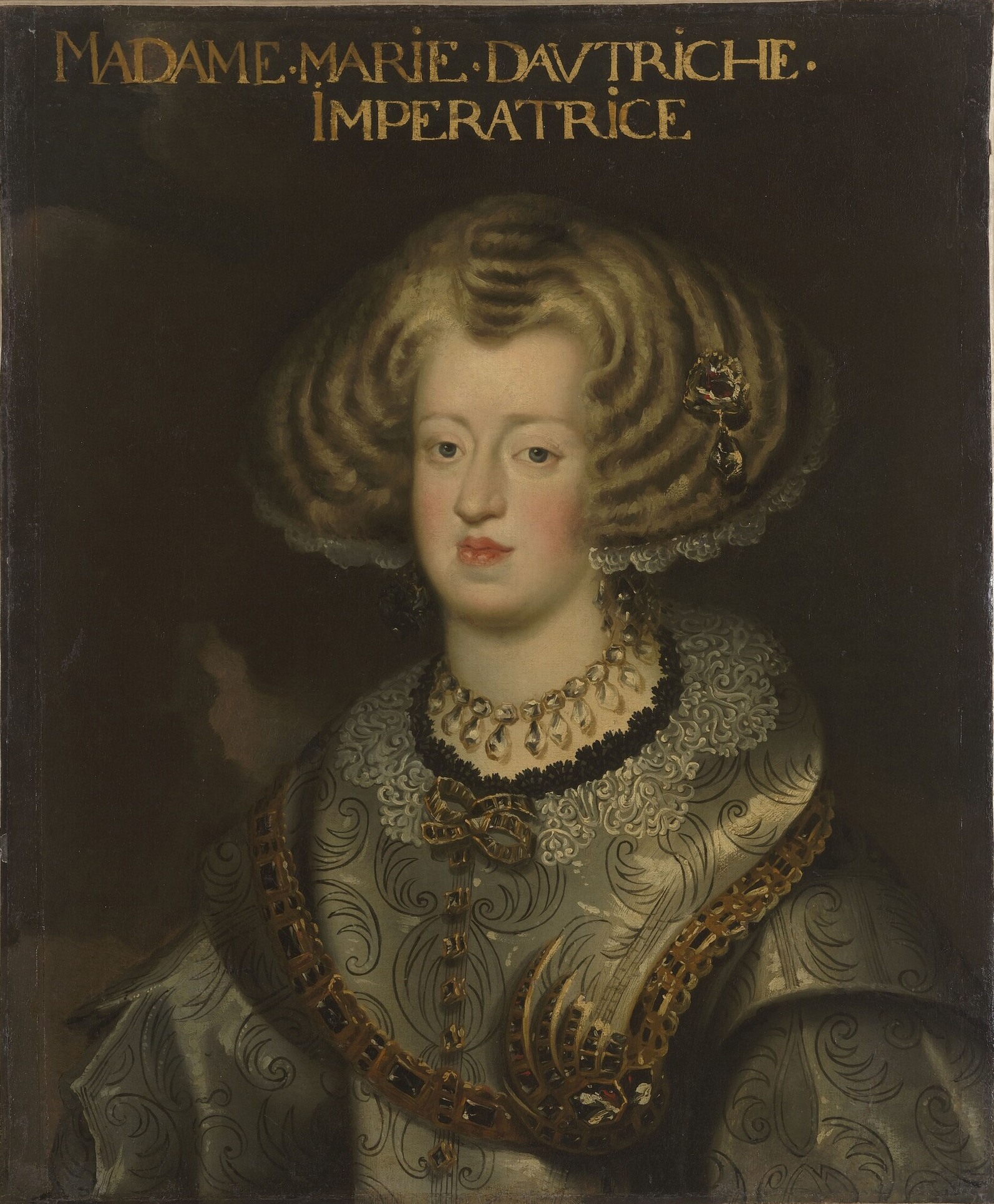 Maria Anna of Spain (1606-1646), Holy Roman Empress